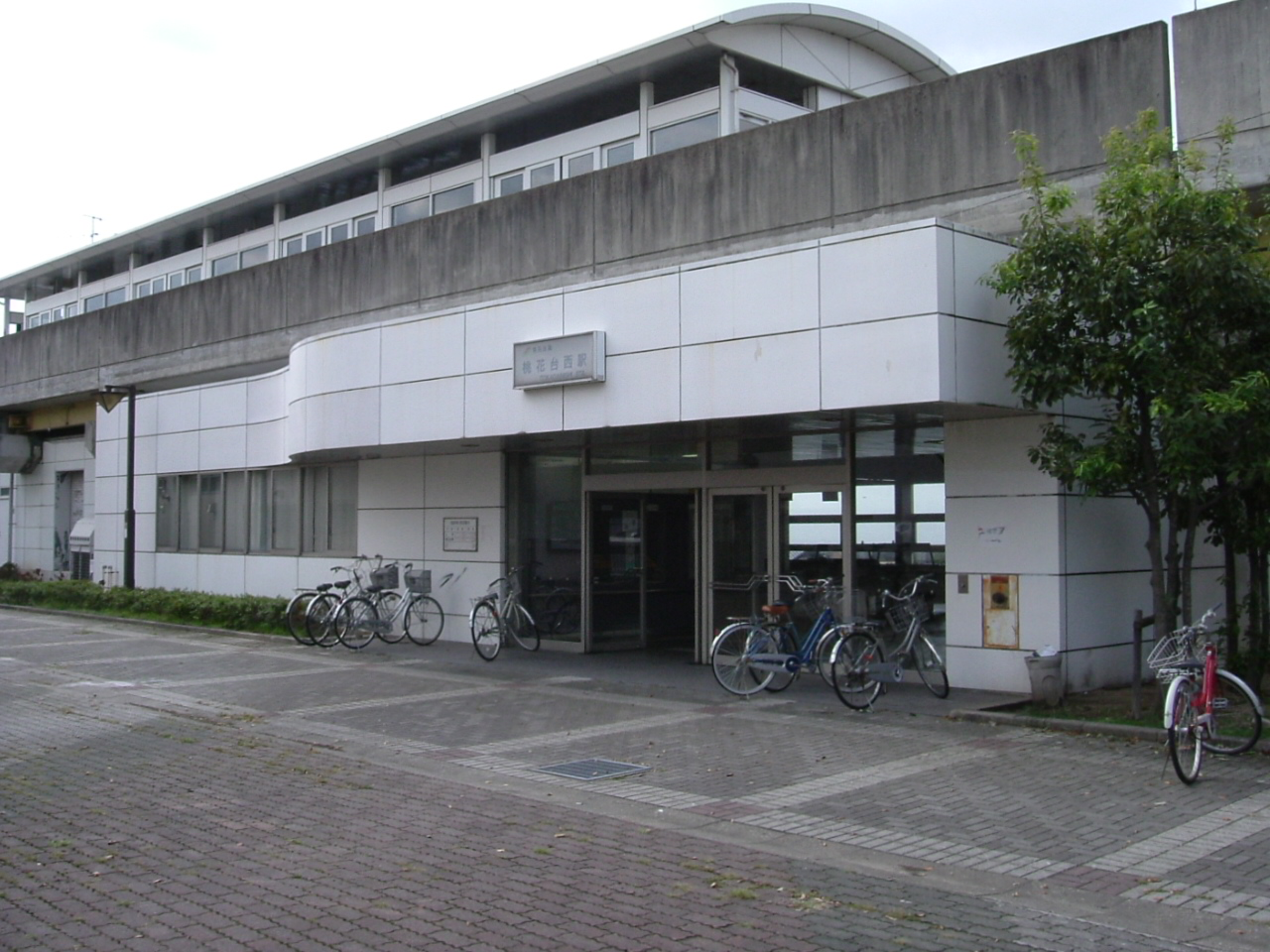 Tokadai-nishi Station is a train staion in Komaki, Aichi, Japan, on the Tokadai Line. 桃花台西駅は、愛知県小牧市にある桃花台線の駅。